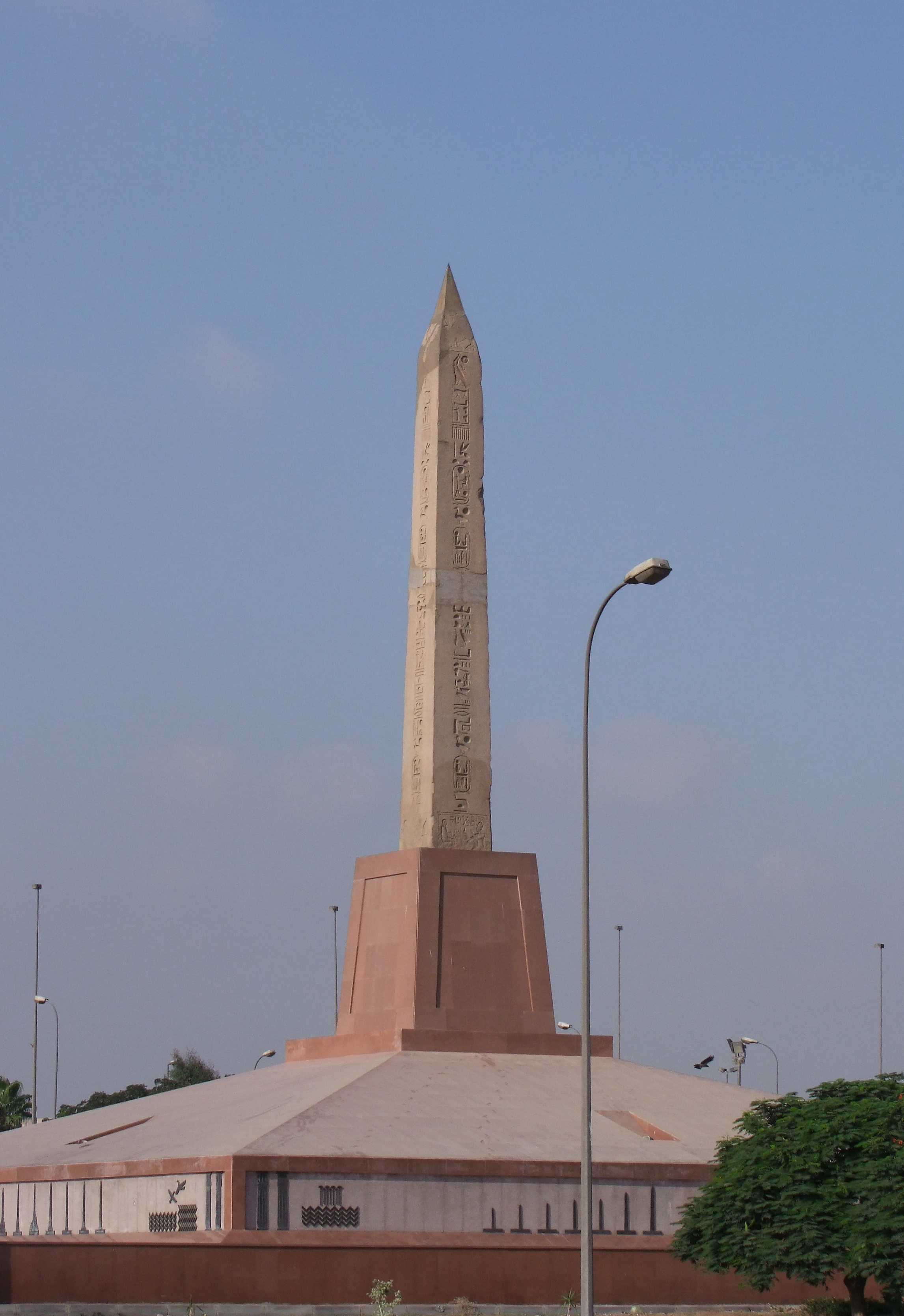 Obelisk of Ramses II at Cairo Int. Airport, found in Tanis, Egypt